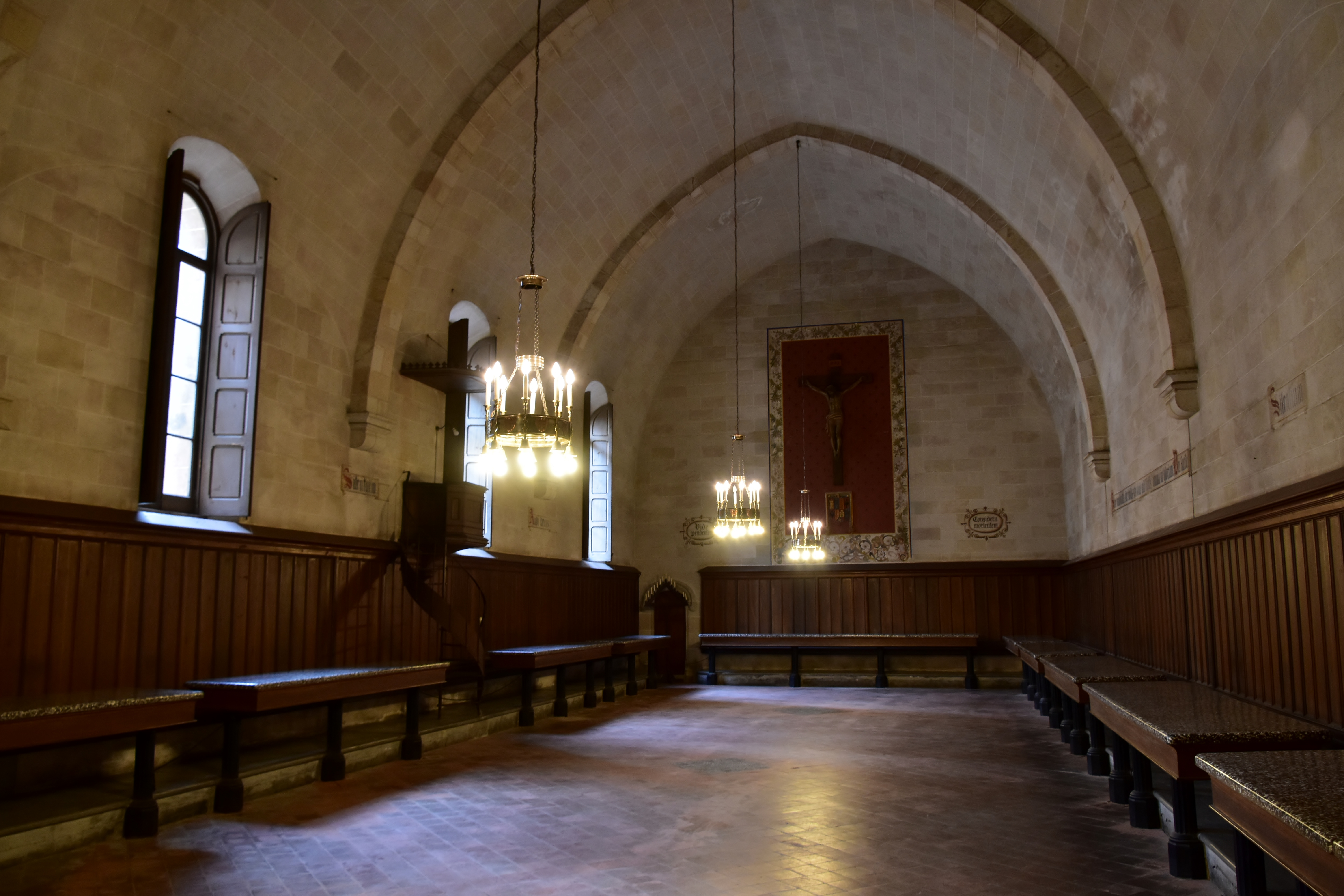 Monastery of Pedralbes, early 14th cent., refectory